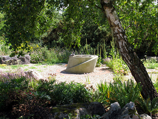 Helen Thomas Memorial Peace Garden. Helen Thomas, an activist, died outside the main gates of Greenham Common Airbase at the Women's Peace Camp. She died in an incident involving a West Midlands Police horsebox on August the 5th, 1989. Helen would have set an historical precedent on August the 18th when she would have been the first person to have been tried in an English court in Welsh, her first language.